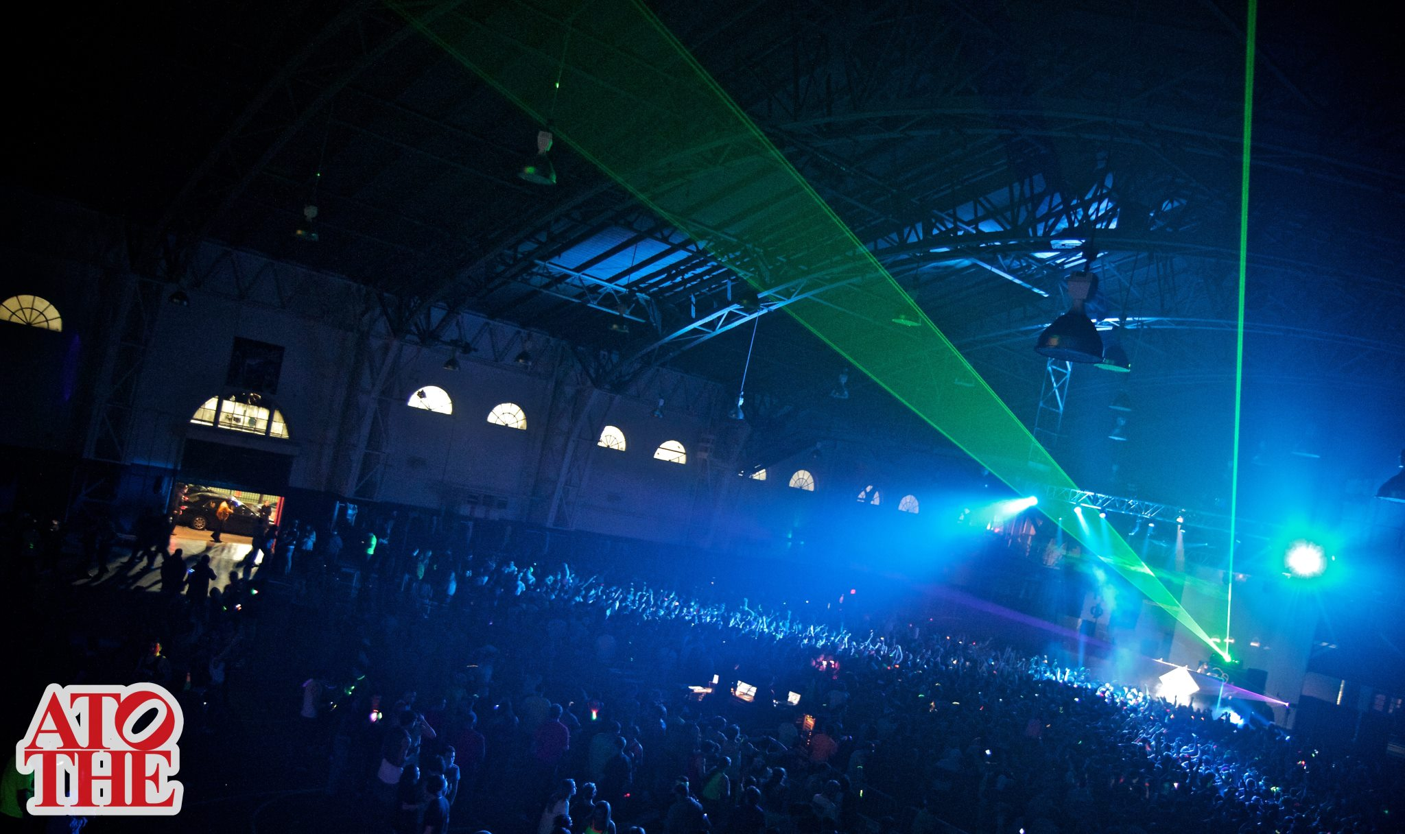 PAWN Lasers - and dj Alesso, Drexel University Armory, Philadelphia, PA